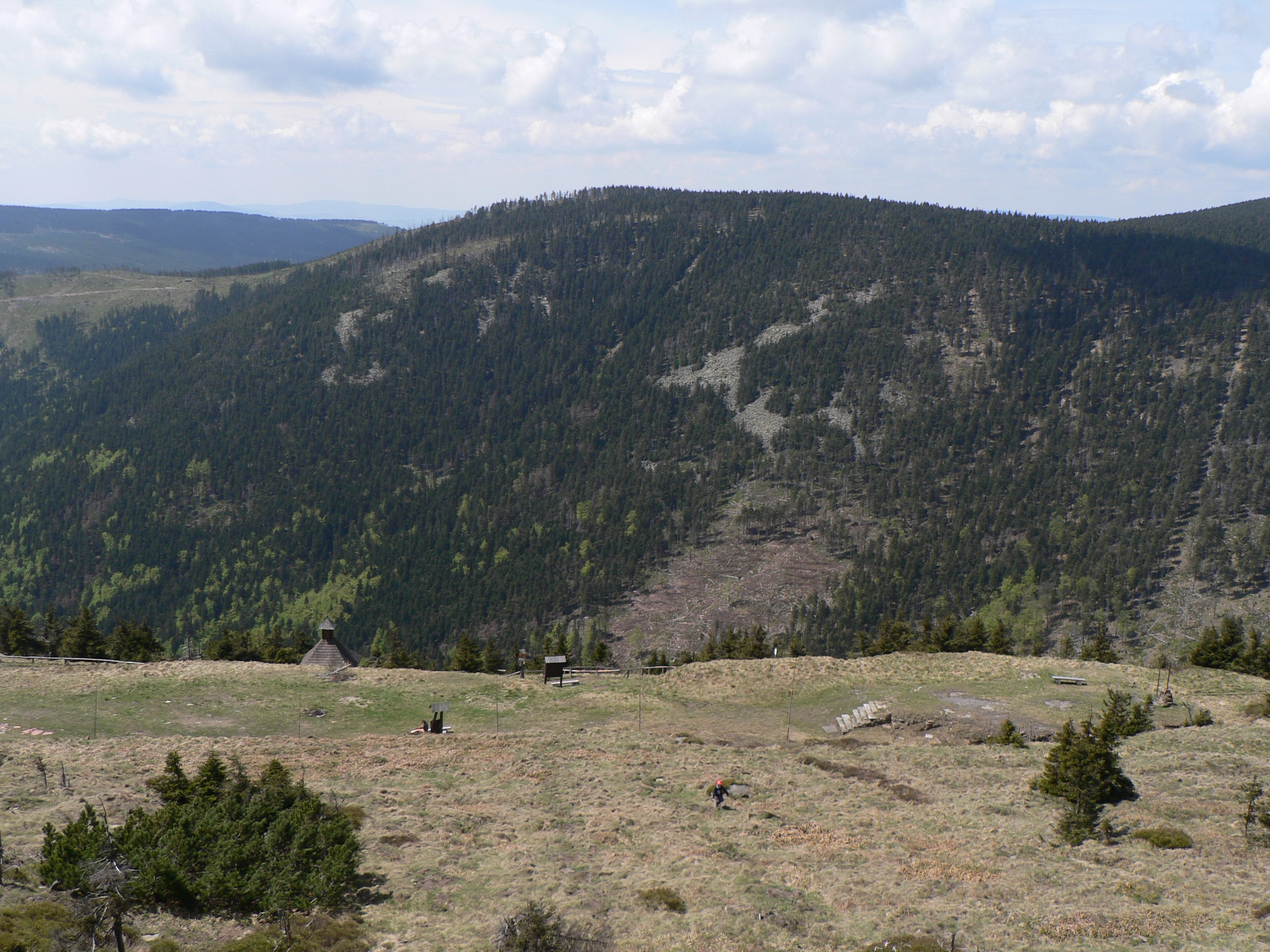 Spaleny vrch mountain, Hruby Jesenik Mts, Czech republic.